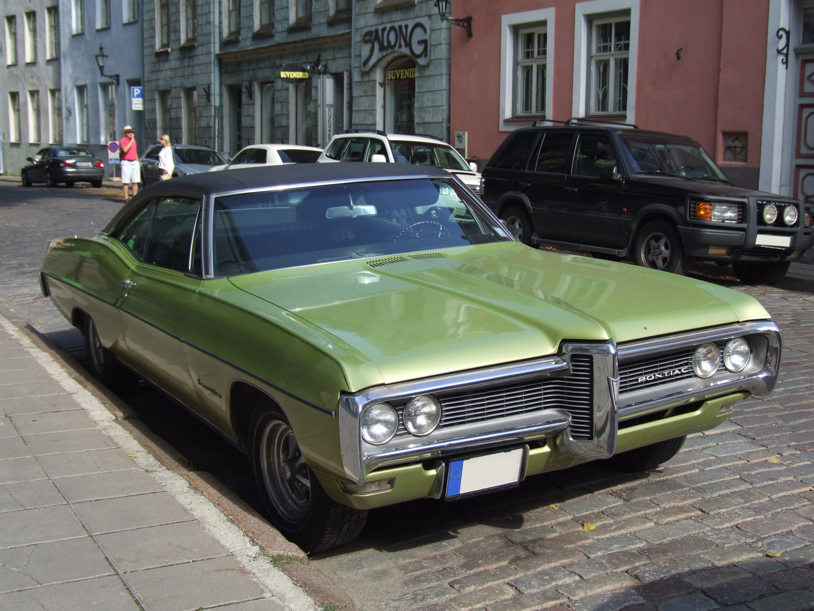 Pontiac Executive, Tallinn